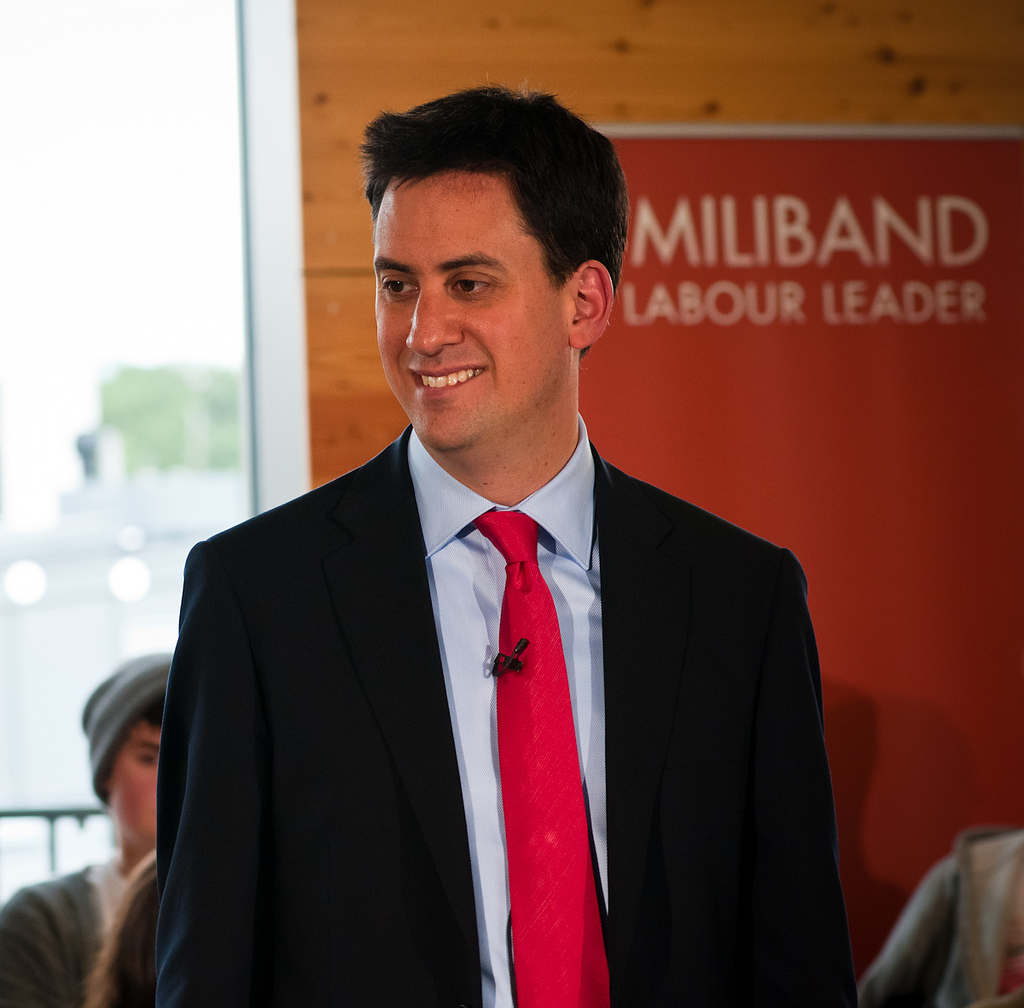 Ed Miliband, British politician